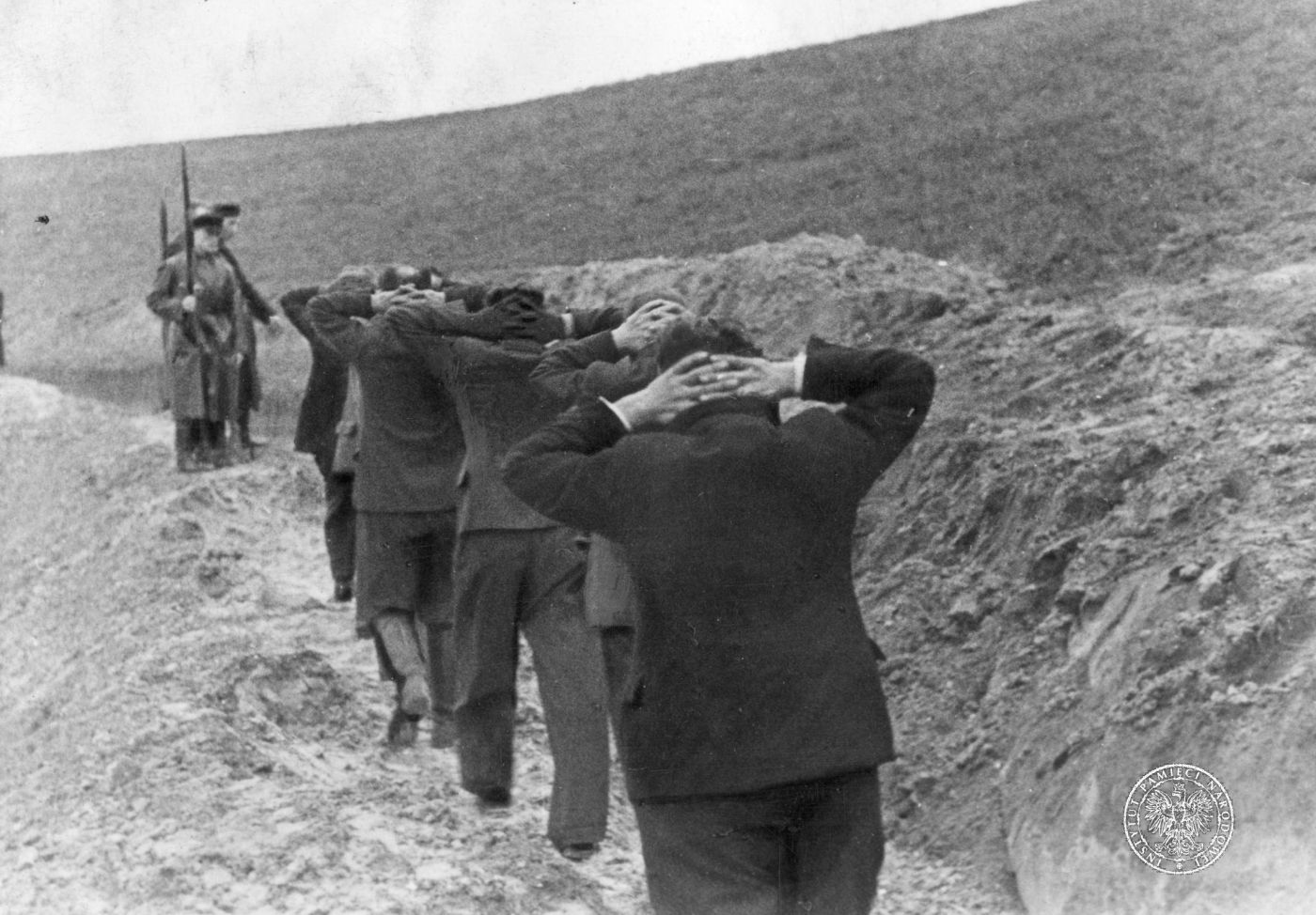 Polish teachers from Bydgoszcz guarded by members of so-called "Volksdeutscher Selbstschutz". Photo taken before the execution in the "Valley of Death" near Fordon.